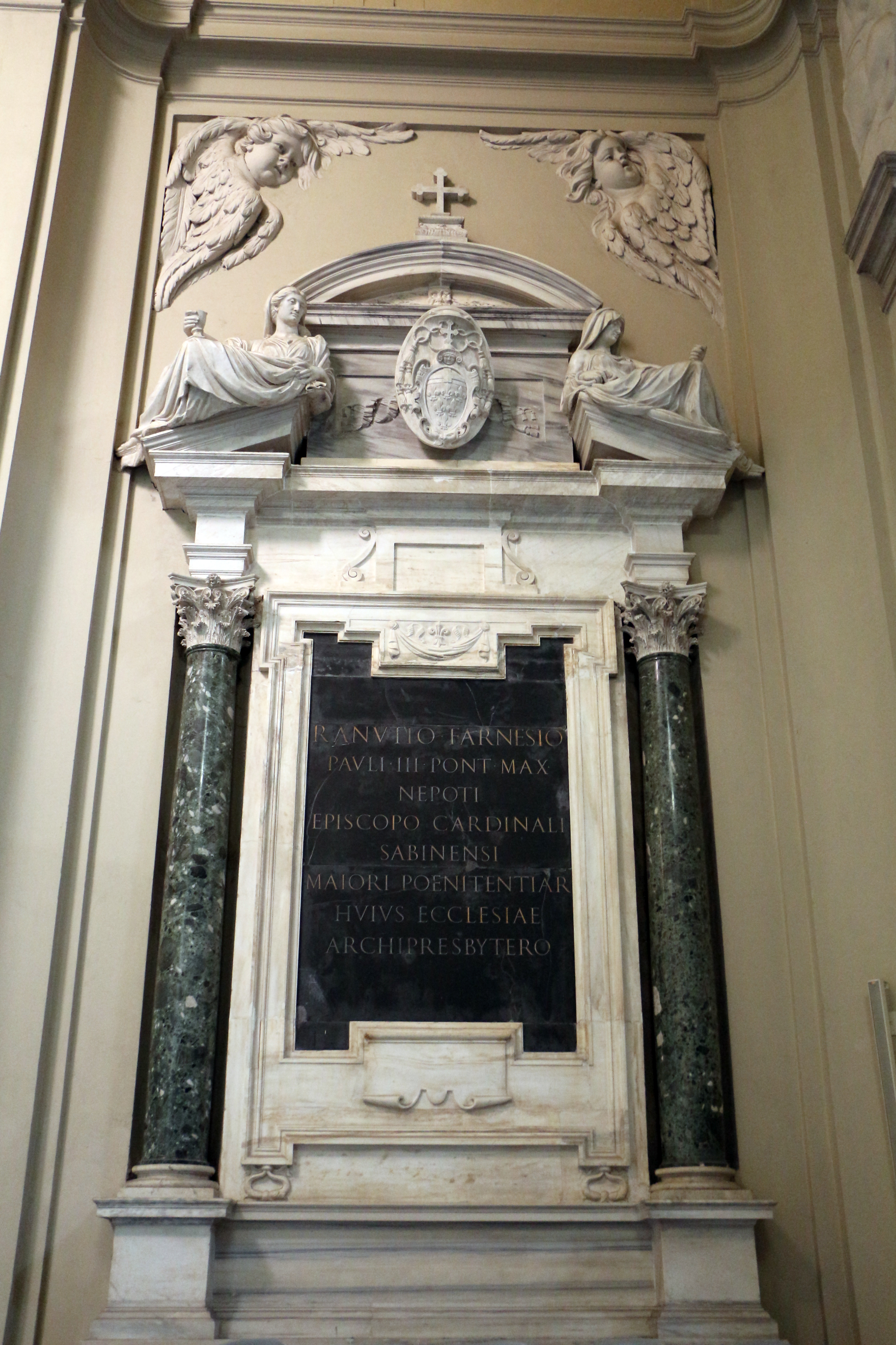 San Giovanni in Laterano (Rome) - Interior